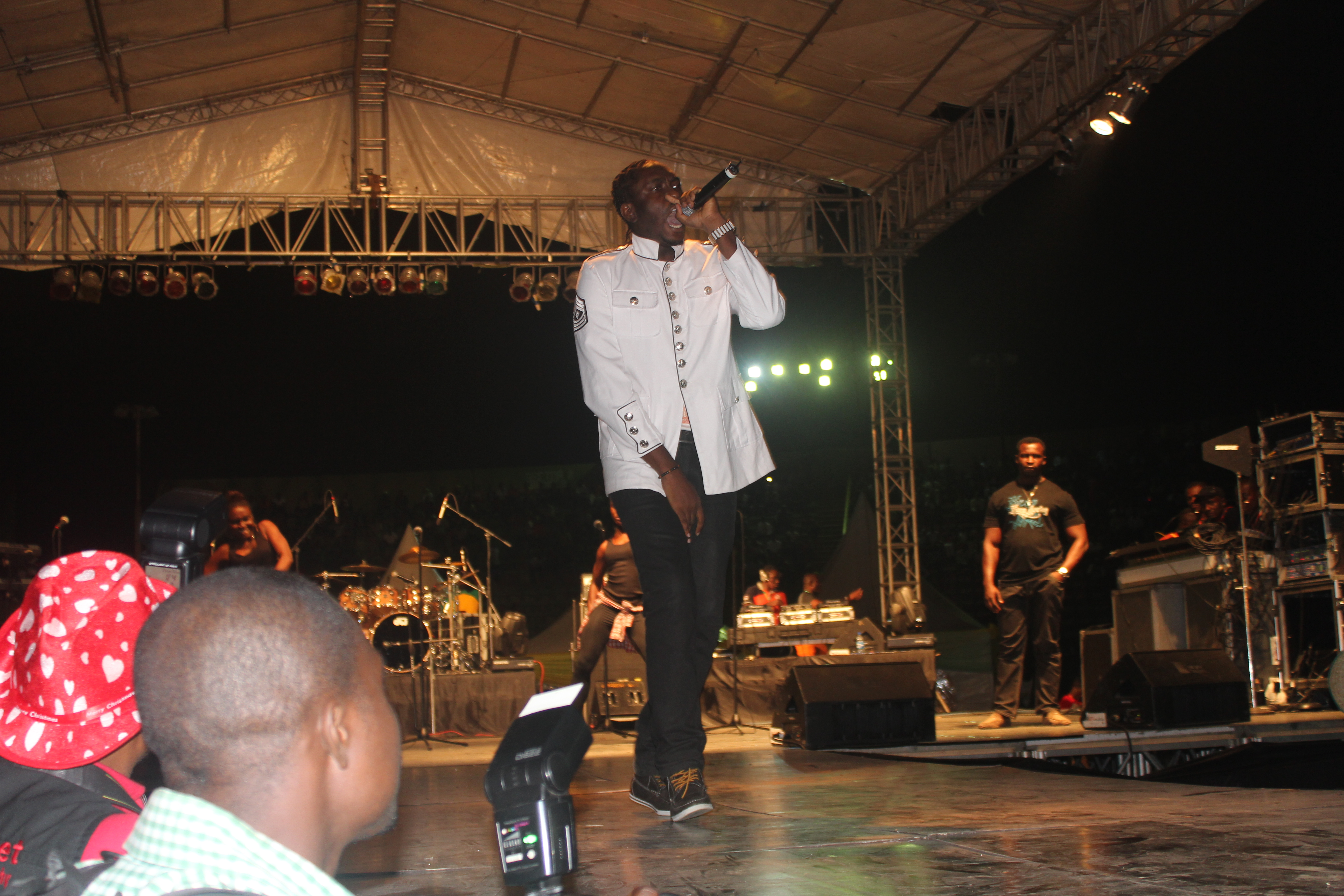 Young Stunna - Carniriv 2013